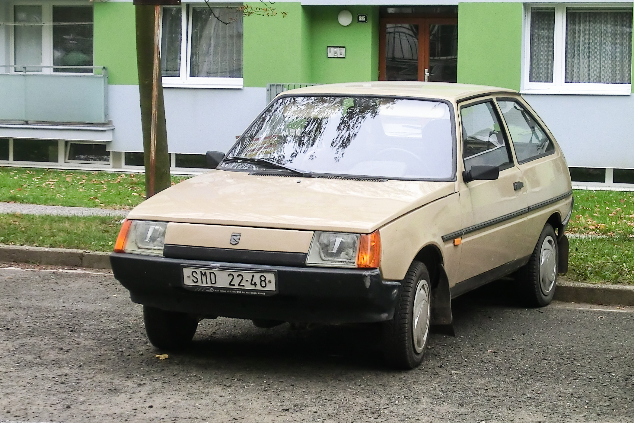 This car ZAZ 1102 Tavria was registered in former Czechoslovakia in the autumn 1989.